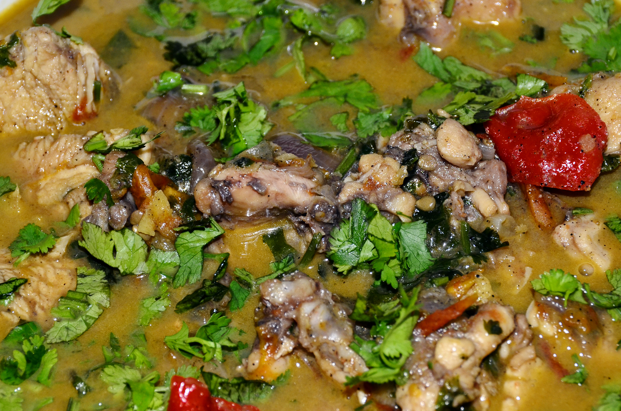 An ethnic preparation of Ghost chilly chicken curry of Assam